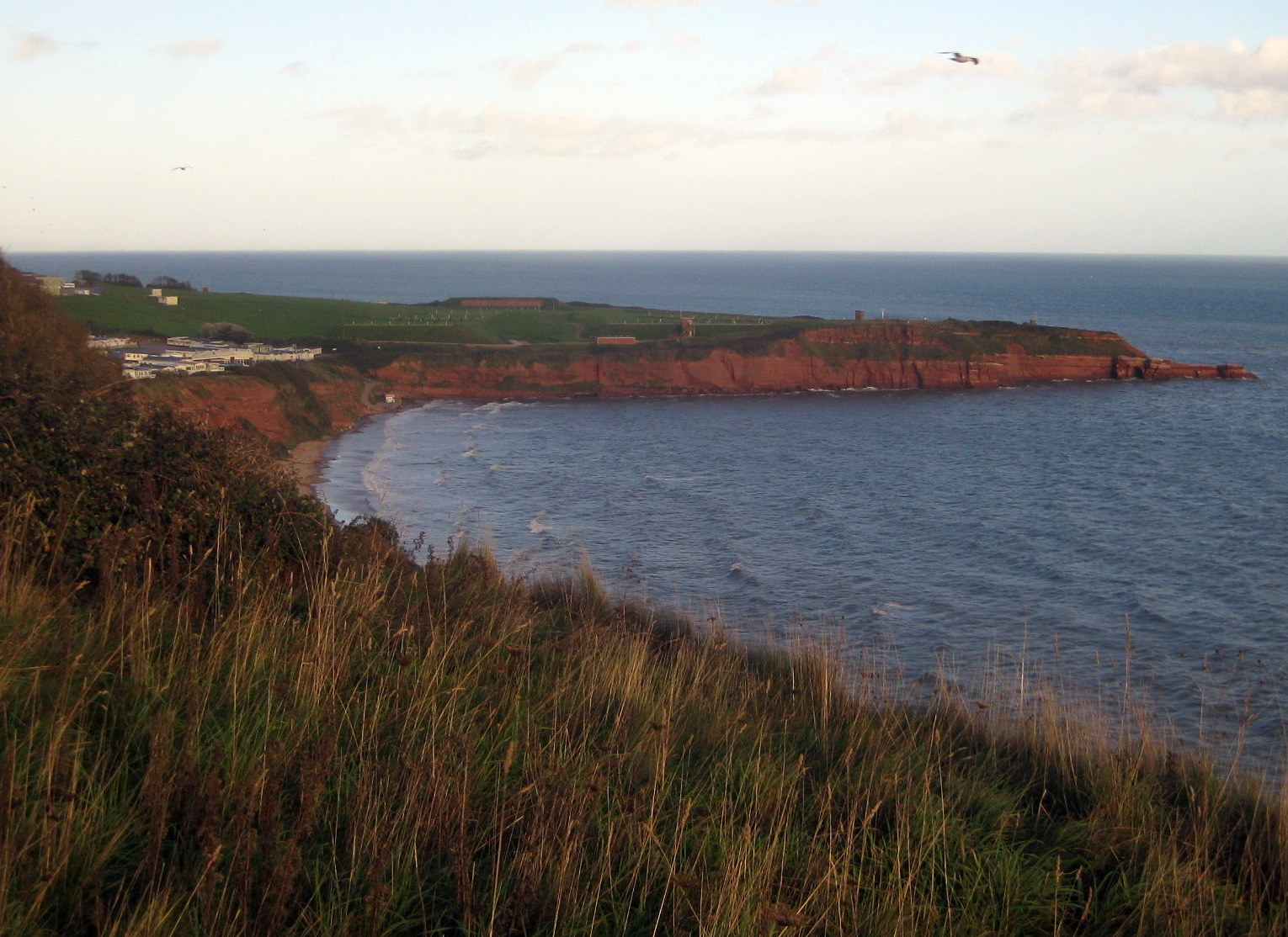 View east over Sandy Bay to Straight Point seen from Orcombe Point